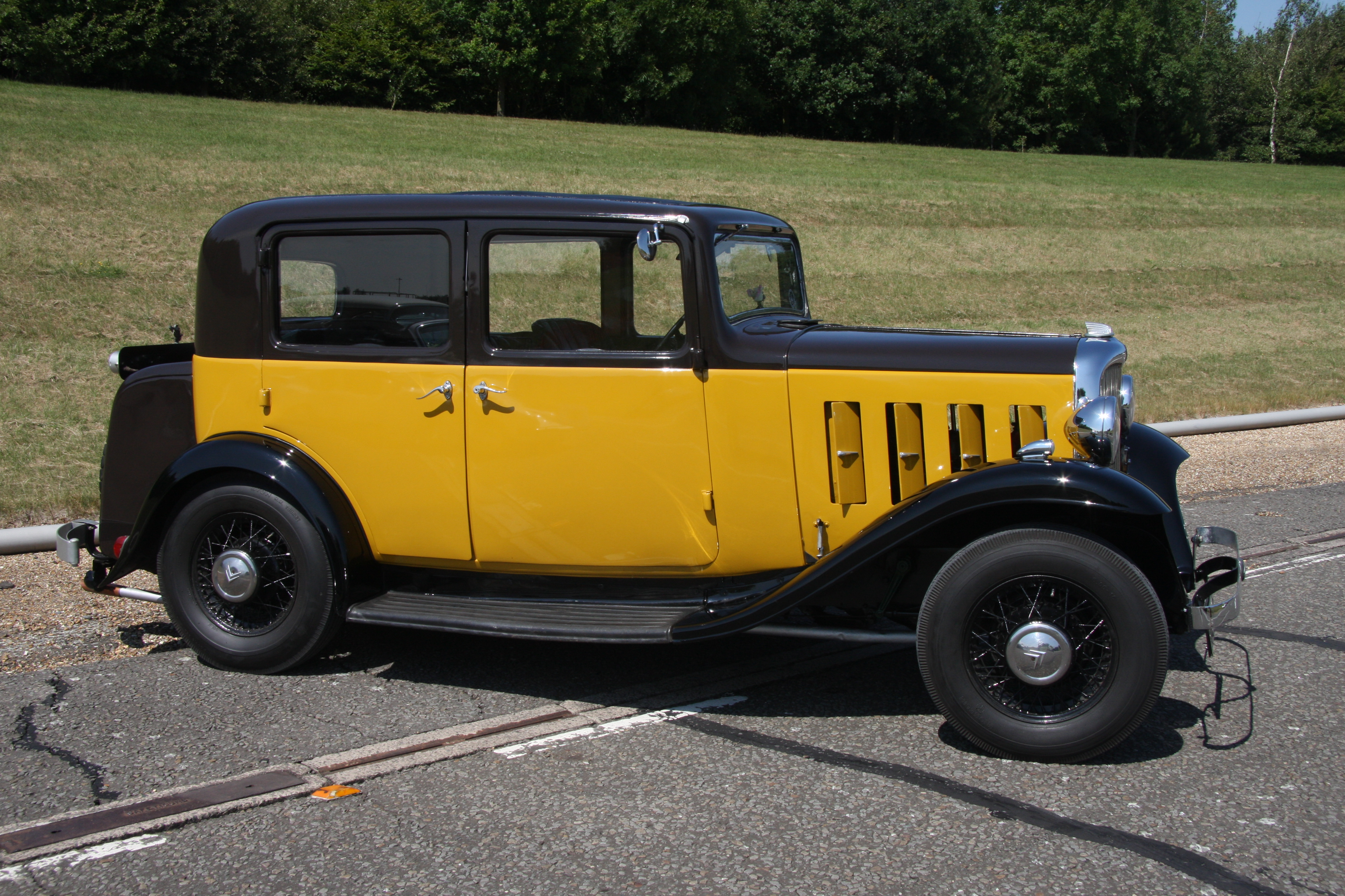 Confusingly the throttle pedal is the middle of the three pedals.